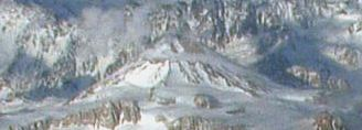 The Andes. Photo was taken on a flight between Asuncion, Paraguay and Santiago, Chile, so the exact location is probably in the area between Santiago, Chile and Cordoba, Argentina.